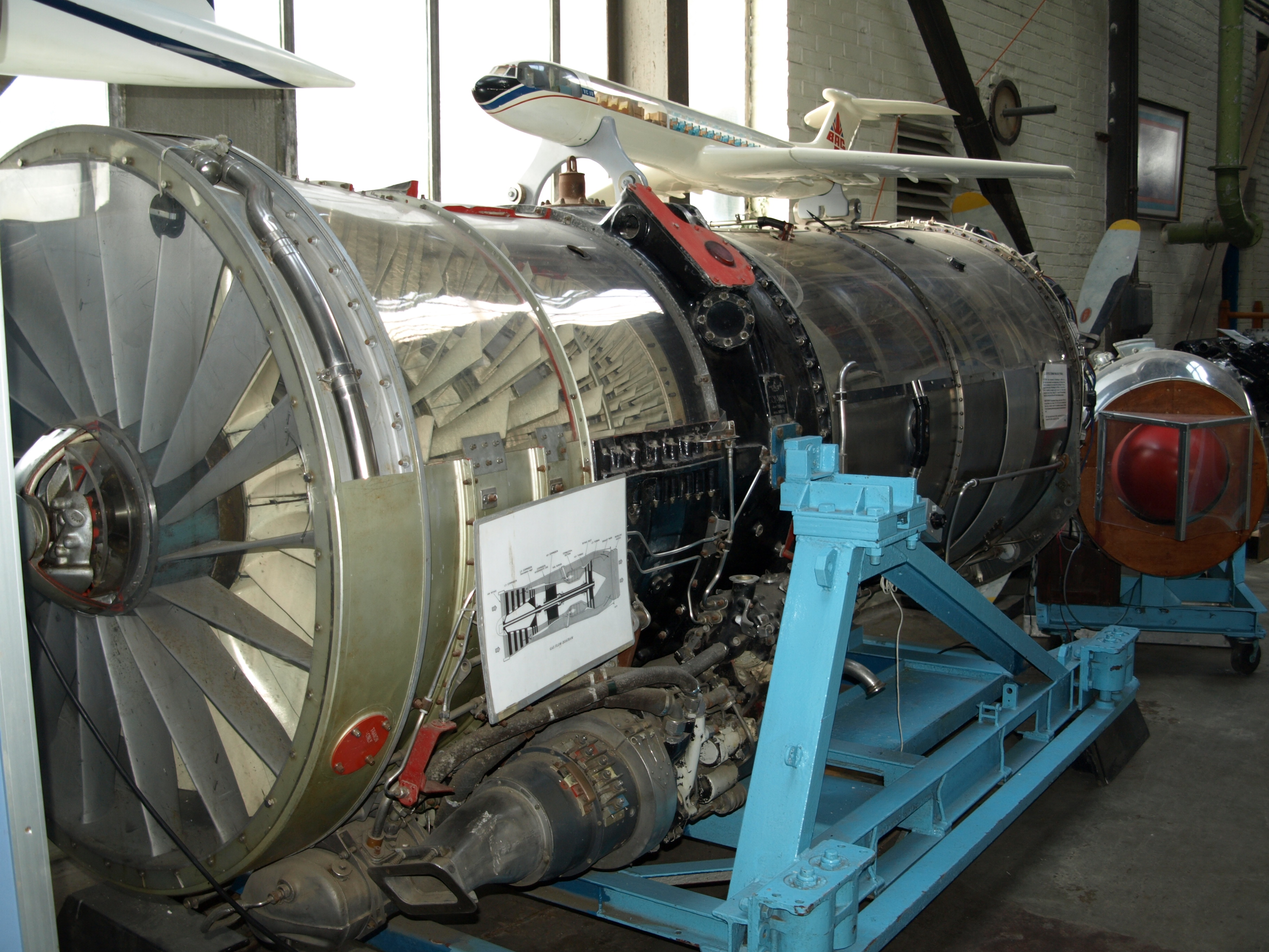 Rolls-Royce Conway Mk.540 turbofan engine on display at the Brooklands Museum